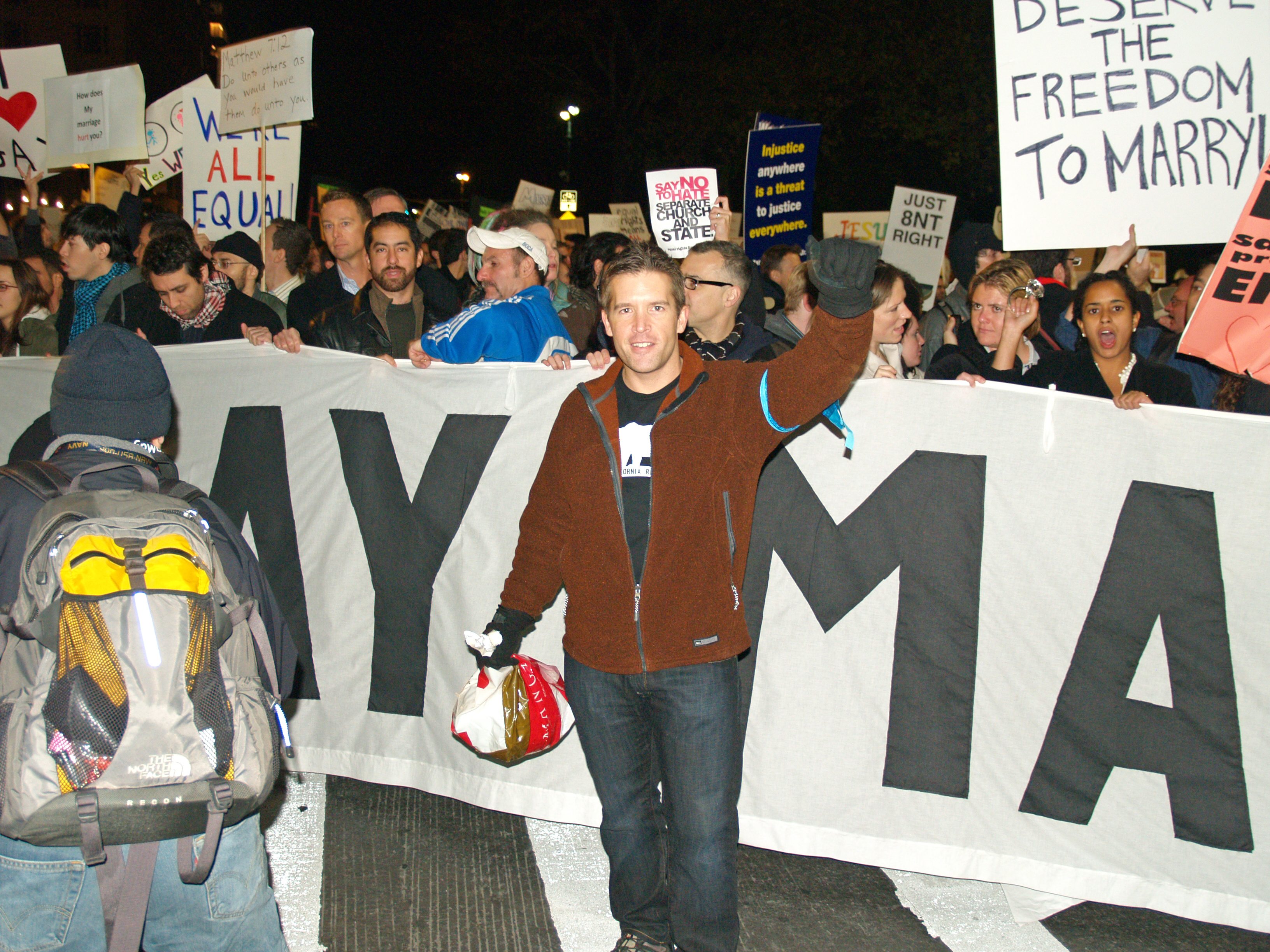 Andy Towle protesting California Proposition 8 outside the Mormon temple at New York City's Lincoln Center.